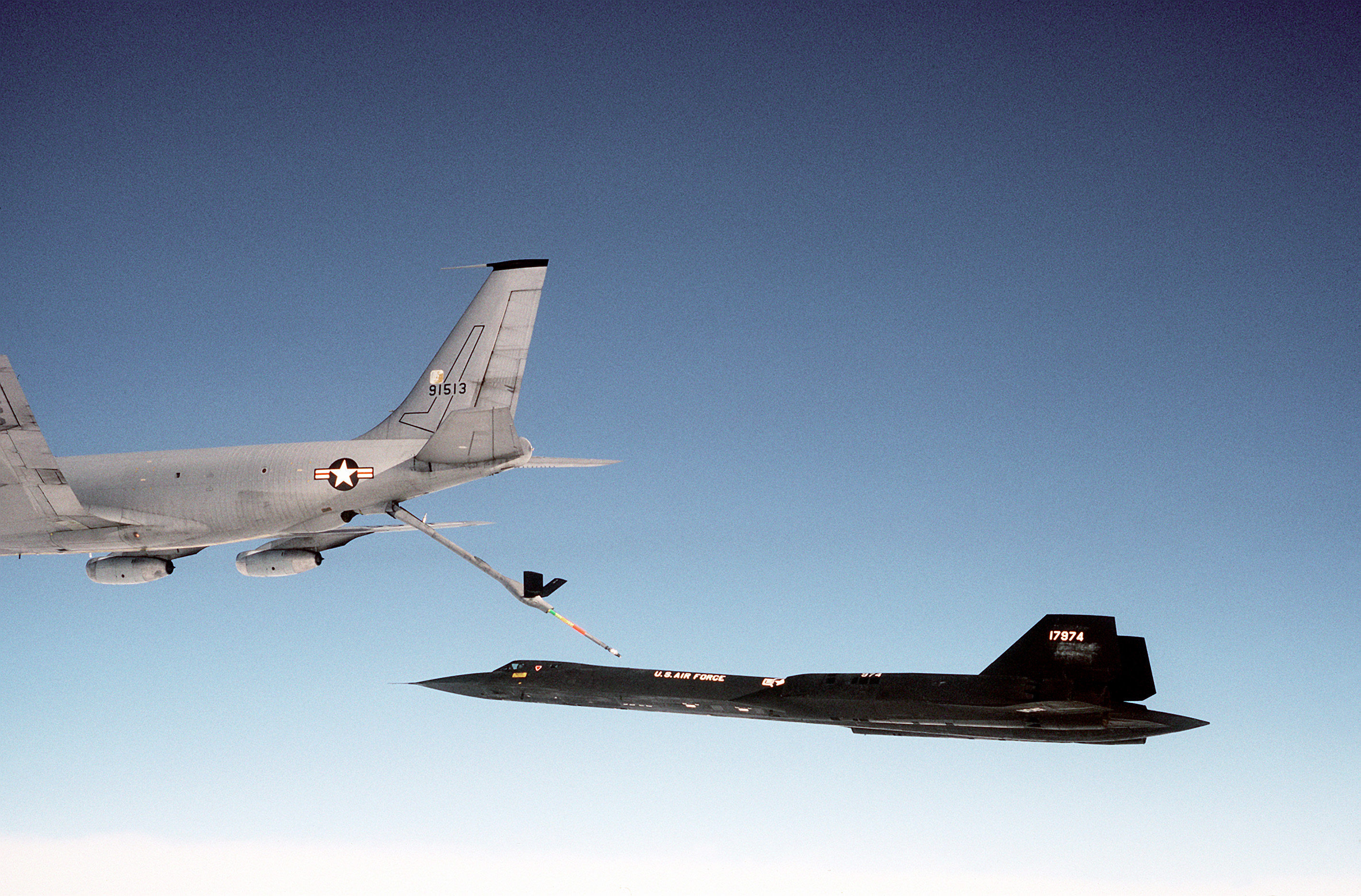 A Boeing KC-135Q Stratotanker (59-1513) refueling an Lockheed SR-71 (61-7974). Original caption: A left side view of an SR-71 aircraft moving toward a KC-135 Stratotanker aircraft for inflight refueling. The SR-71 is from the 9th Strategic Reconnaissance Wing.